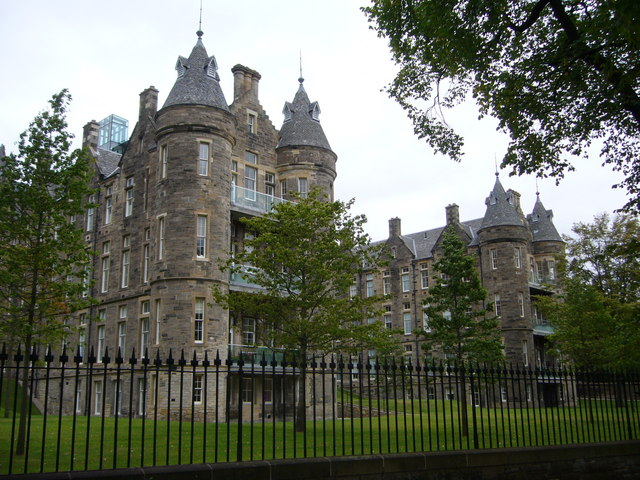 Old Royal Infirmary from the Meadows Once part of the largest hospital in Europe under one roof, the Victorian sections of the former Royal Infirmary have been converted and incorporated into a modern residential development.